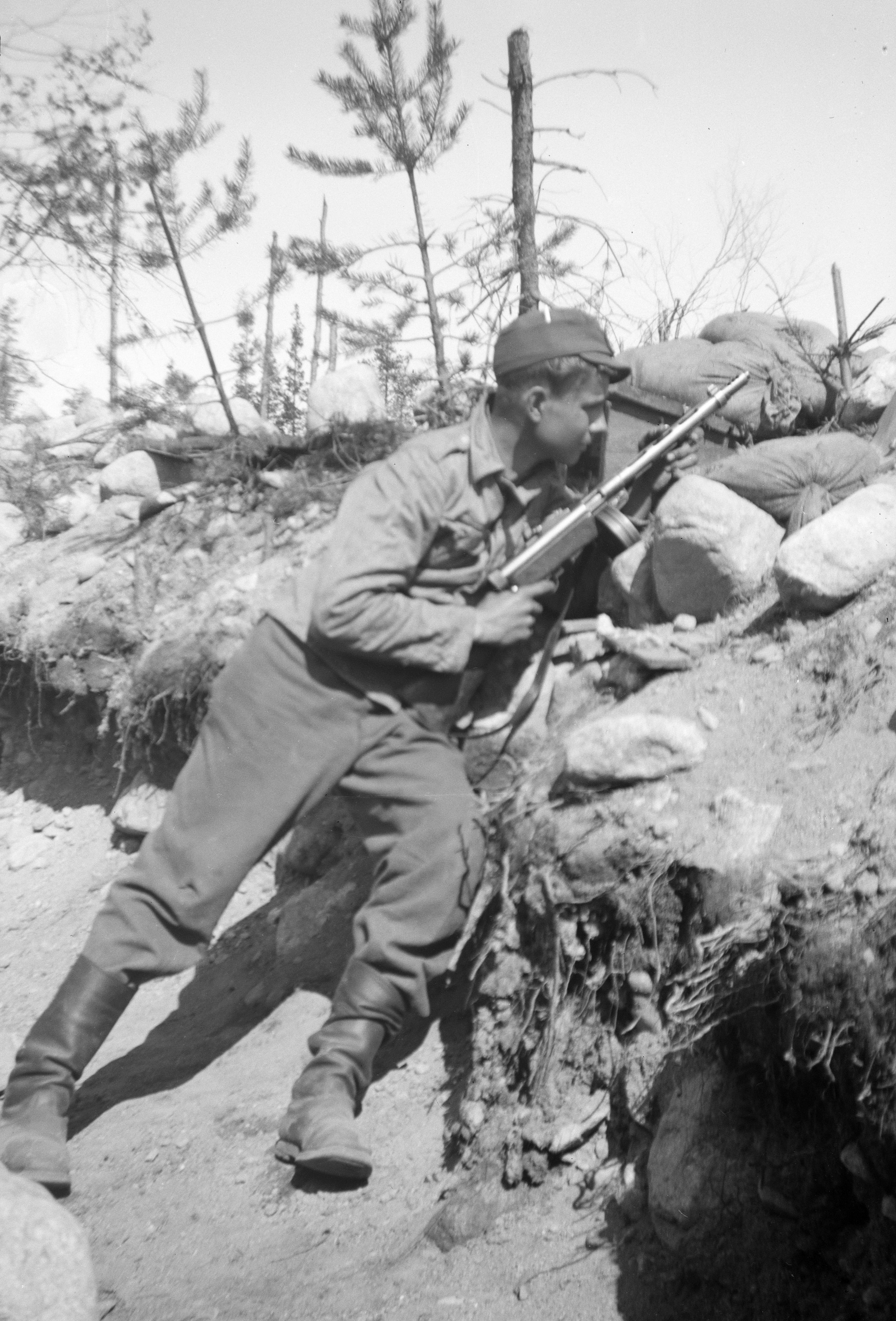 Mauno Koivisto during the Continuation War. Photographer, time and location unknown. --- Presidentti Mauno Koiviston yksityisarkistoa säilytetään Kansallisarkistossa. Lähes 32 hyllymetrin laajuinen kokoelma sisältää runsaasti tietoa koko hänen elämänsä ajalta. Hyvä ilmentymä arkiston laaja-alaisuudesta on siihen sisältyvä 22 kotelon ja kolmen laatikon laajuinen valokuvakokoelma, joka sisältää kuvia ainakin vuosilta 1939-1998. Kuvien ottaja ja ajoitus on valitettavan usein epäselvä - kokoelmassa on niin ammattivalokuvaajien vedoksia kuin myös presidentti Koiviston mahdollisesti itse ottamia kuvia. Tähän nyt julkaistuun kokoelmaan on valittu kuvia hänen nuoruusvuosiltaan. Arkiston käyttöön vaaditaan Kansallisarkiston pääjohtajan lupa. Lisätietoa arkistosta löytyy Arkistojen Portista ( --- President Mauno Koivisto's private archive is preserved at the National Archives of Finland. The size of the collection is almost 32 shelf metres, containing a wide range of information regarding him and his life. A good example of the wide scope of the private archive can be seen in the collection of photographs contained within (25 containers in total). The collection contains photos at least from the years 1939 to 1998, and includes prints by professional photographers as well as photos possibly taken by president Koivisto himself. Sadly, the photographer, time and place are seldom mentioned. The collection presented here contains photos from his youth. Access to the archive requires written permission from the Director General of the National Archives.